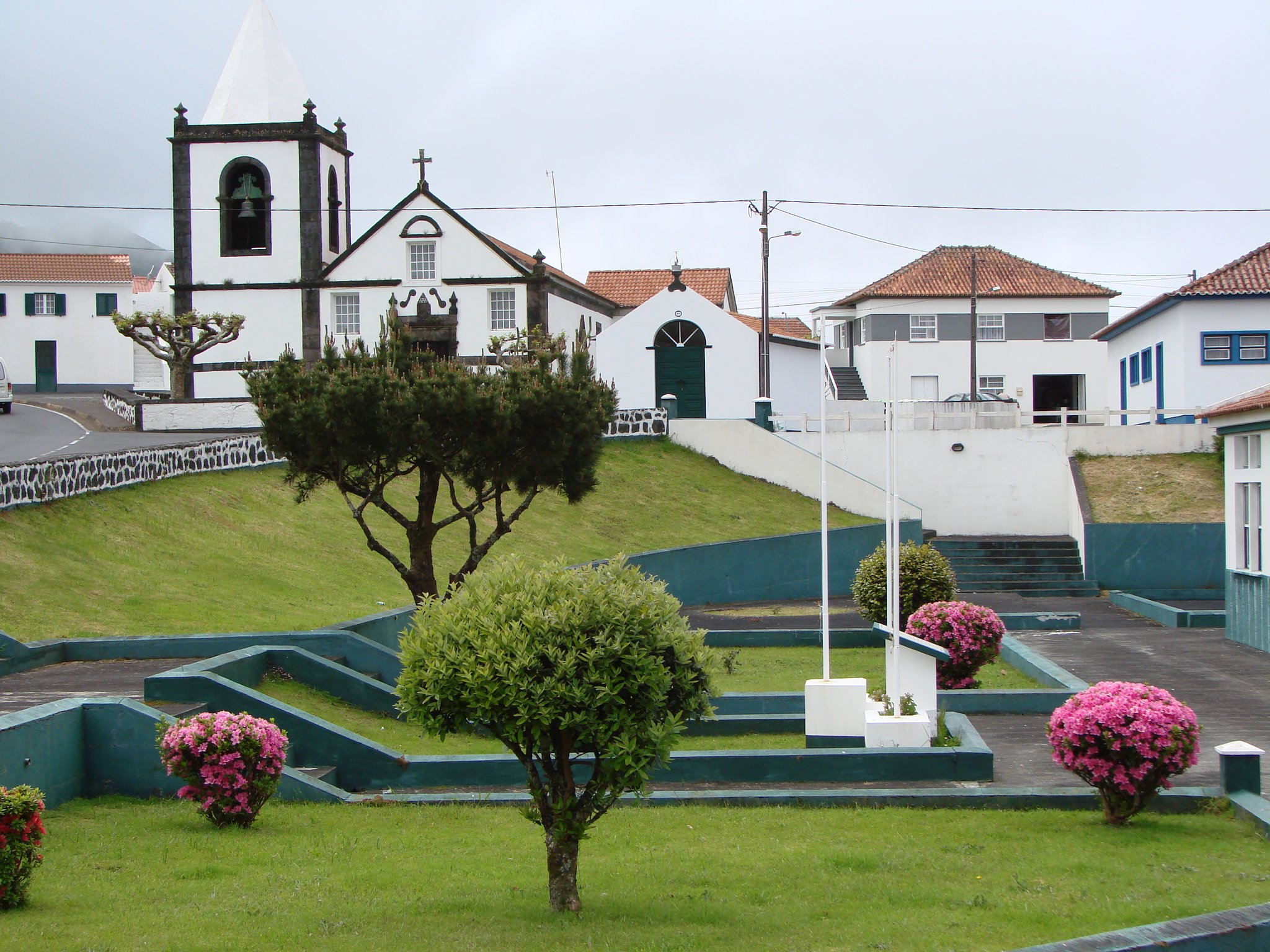 Norte Pequeno, Largo da Freguesia, 2011